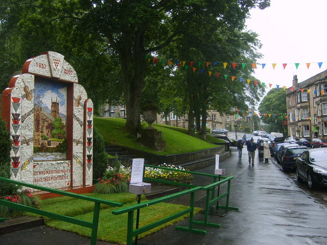 Well dressing scene A brightly dressed well on a dismal Buxton Summer morning.